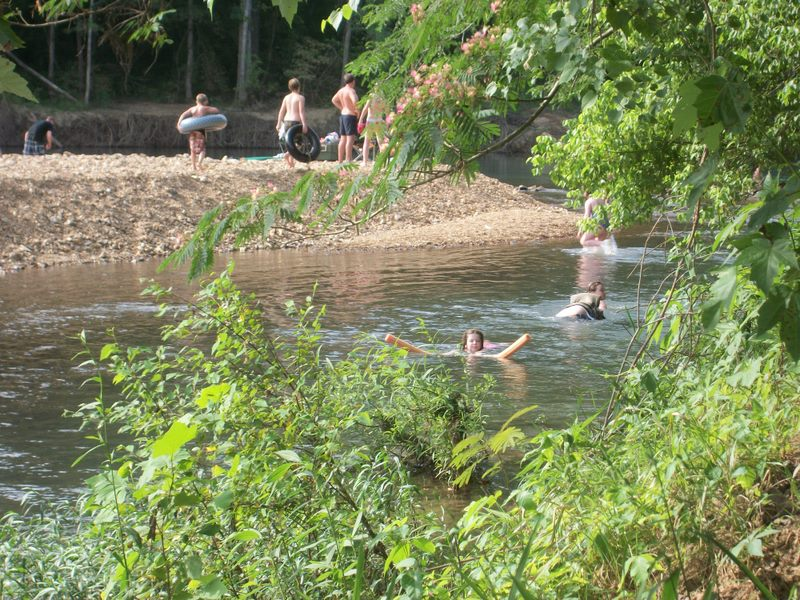 Families enjoy White Oak Creek at Magnolia Bridge Park in Houston County Tennessee